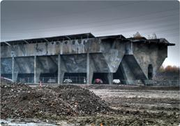 The picture shows the "Solarbunker" in Gelsenkirchen, Germany.